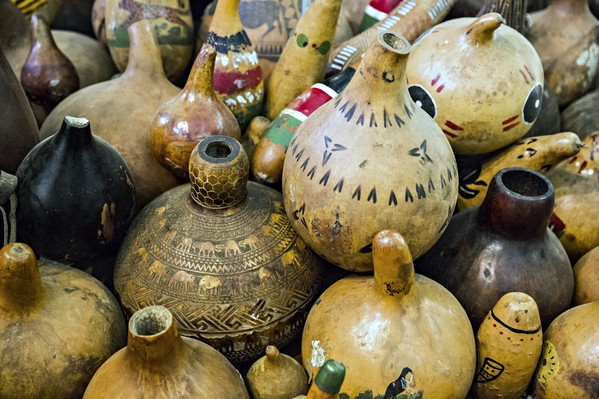 Kenyan Calabashes